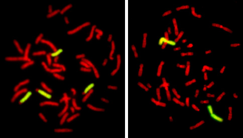 DNA of the human chromosome 2 was labeled, applied to Orang-Utan (left) and human metaphase chromosomes (right) by fluorescence in situ hybridization and detected in green. While in the human metaphase spread only the two copies of chromosome 2 were detected, in the Orang-Utan metaphase spread the two original chromosome pairs were painted: Human chromosome 2 is the evolutionary derived fusion product from two separate ancestral chromosomes. In non-human primates - like for example in the Orang-Utan (chromosomes on the left side) - as well as in several other mammals, two chromosomes are observed which carry human chromosome 2 orthologous genes and syntenic segments of orthologous DNA sequences. The fusion in human 2q13-14 at approximately 114 Mbp of the human reference sequence (see Ensembl) occurred after the split of the human and chimpanzee lineages from that of their last common ancestor.